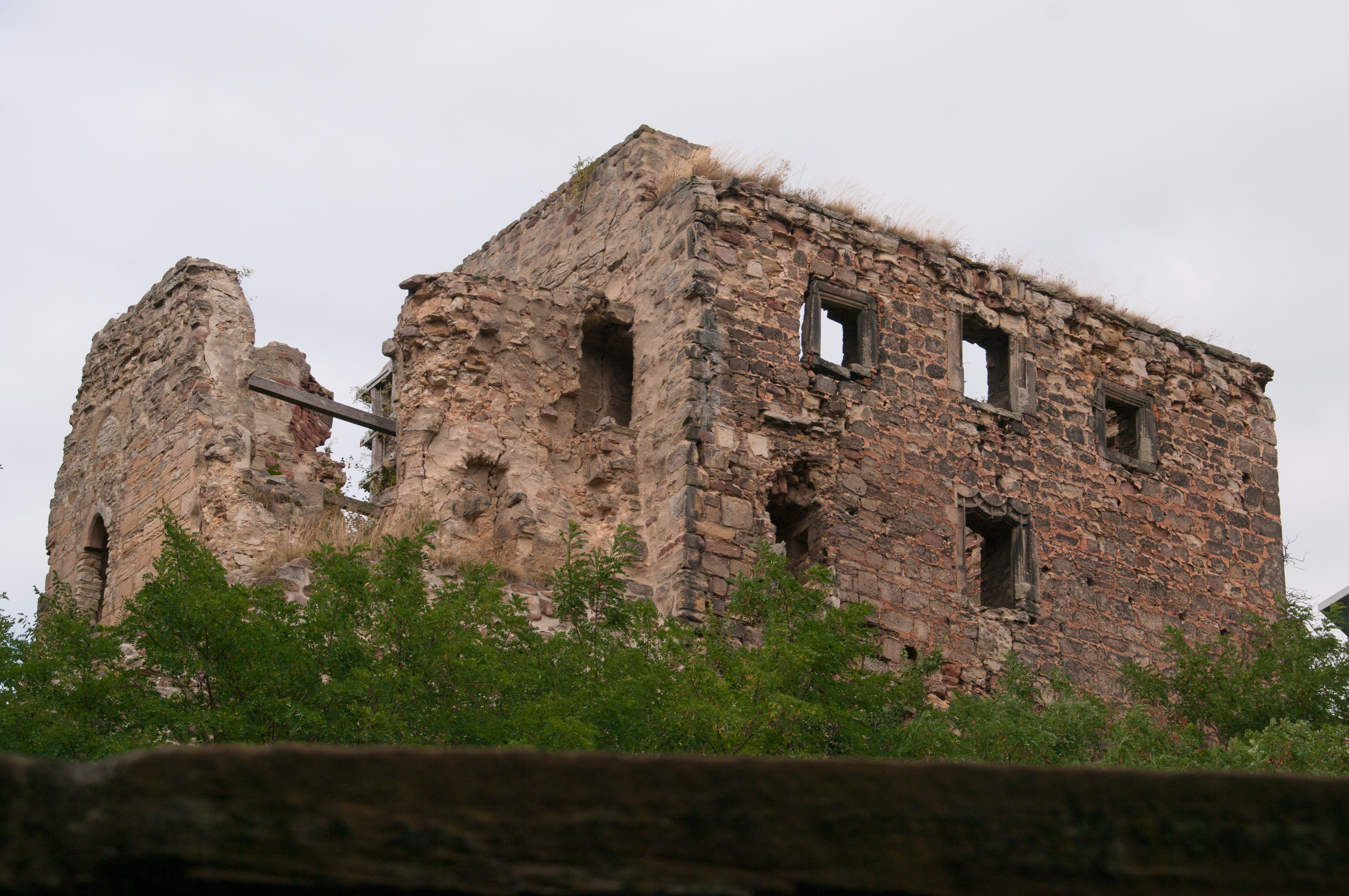 Old castle Nebra